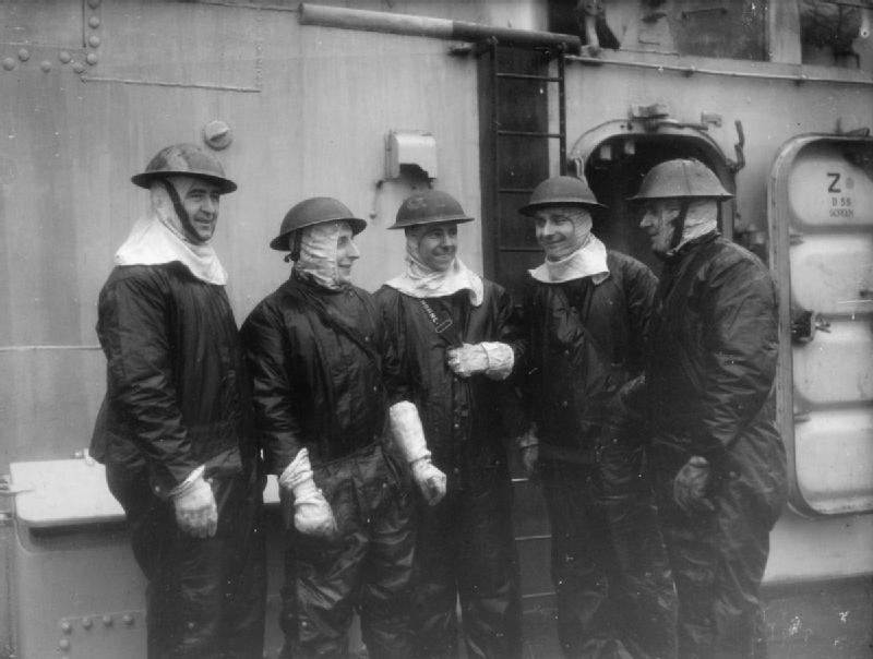 IWM caption : Torpedomen of HMS JAMAICA who finally dispatched the SCHARNHORST. Right to left: Petty Officer J O Mahoney, of Middleton, Co Cork, J Beck, of Wakefield, R Polkinghorne, of Hayle Cornwall, S Bell, of Thornaby, Yorkshire and C B Gunter of Chew Magna, Somerset at Scapa Flow after the sinking of the German warship on 26 December 1943. The men are still wearing their anti flash gear.